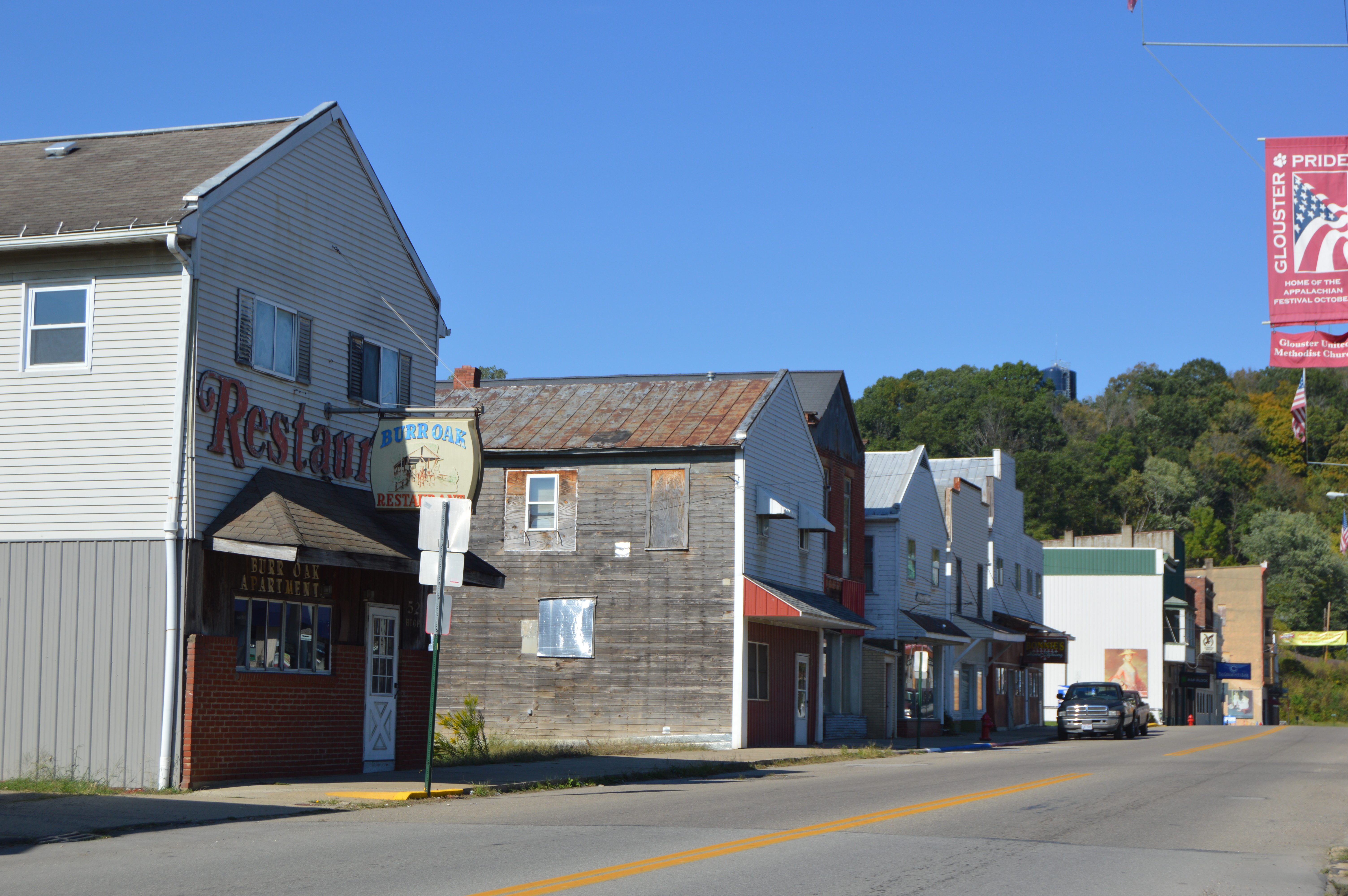 Buildings on the western side of High Street (State Route 13), south of the Republic Avenue intersection, in Glouster, Ohio, United States.